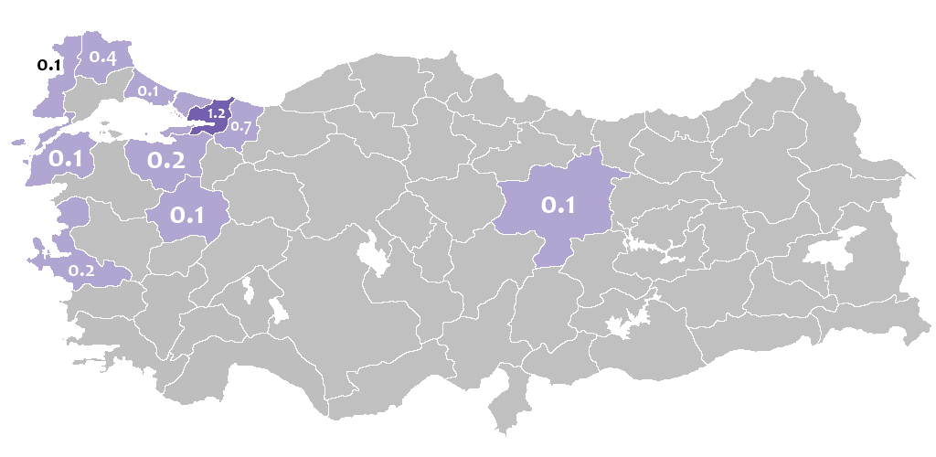 This map shows the distribution of people who spoke Bosnian in 1965's Turkey.